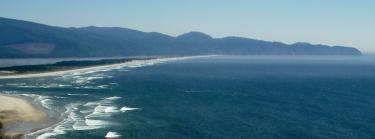 This is an image of Cape Lookout, Oregon taken from oceanside. I took it myself.